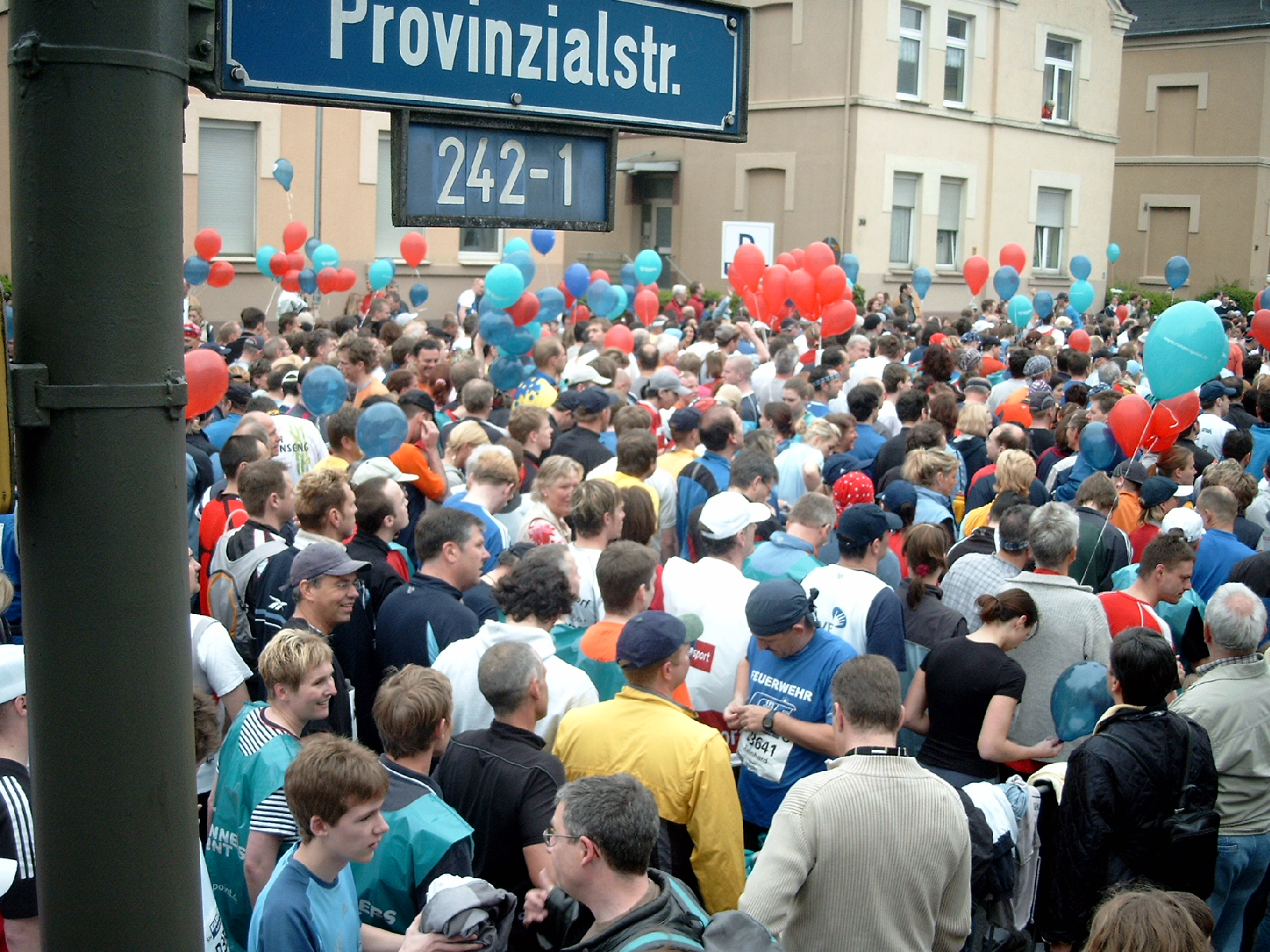 3. Ruhrmarathon in Dortmund-Bövinghausen, Germany (originally uploaded at )